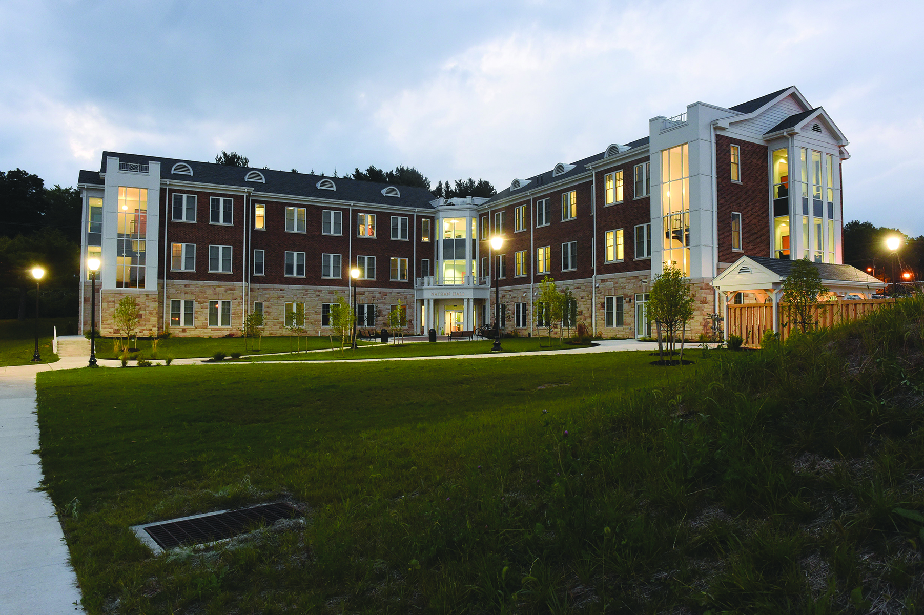 Building on Campus